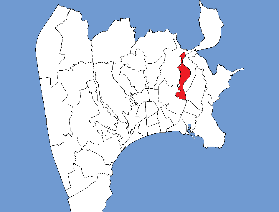 Location of the neighbourhood Pasteur in Nice